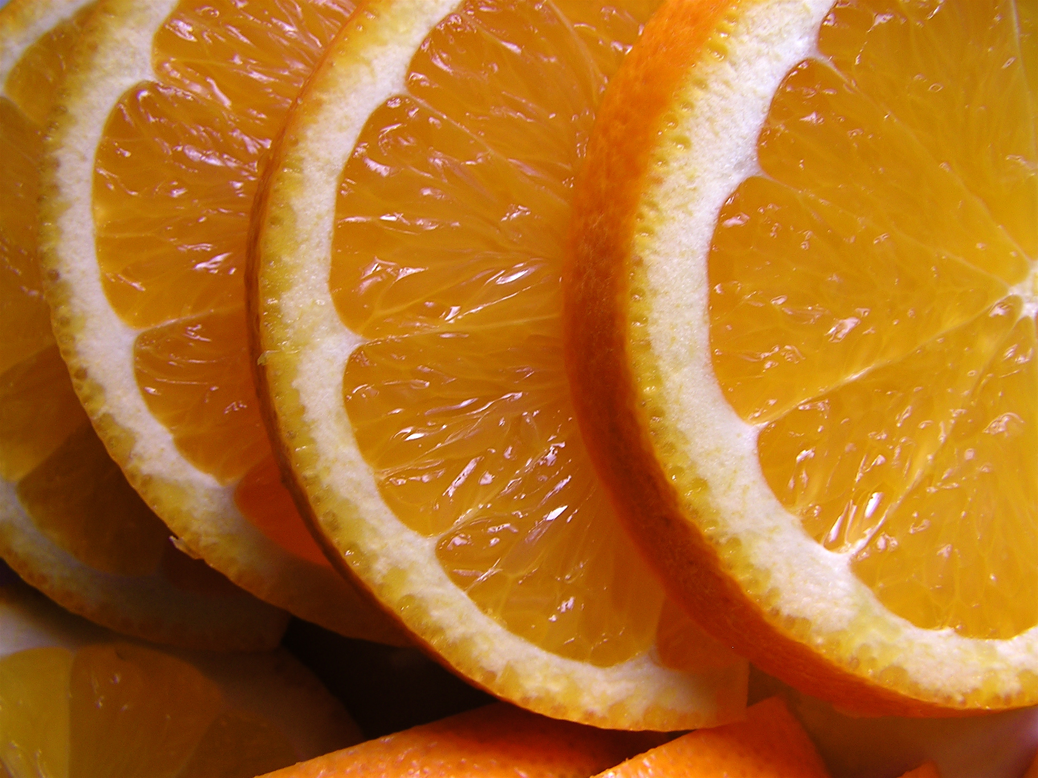 oranges macro